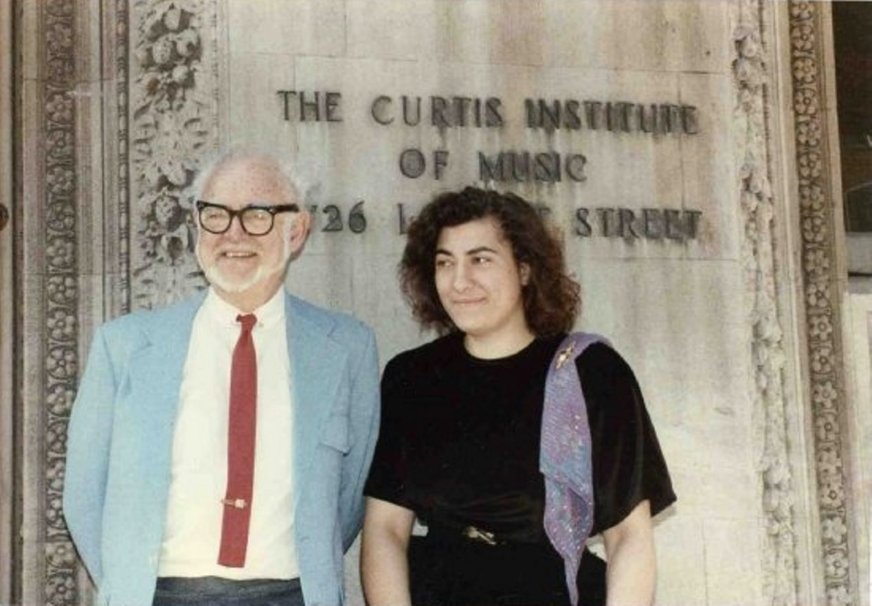 Pianist Dr. Vladimir Sokoloff with pianist Ruth Butterfield Winter in front of the Curtis Institute of Music